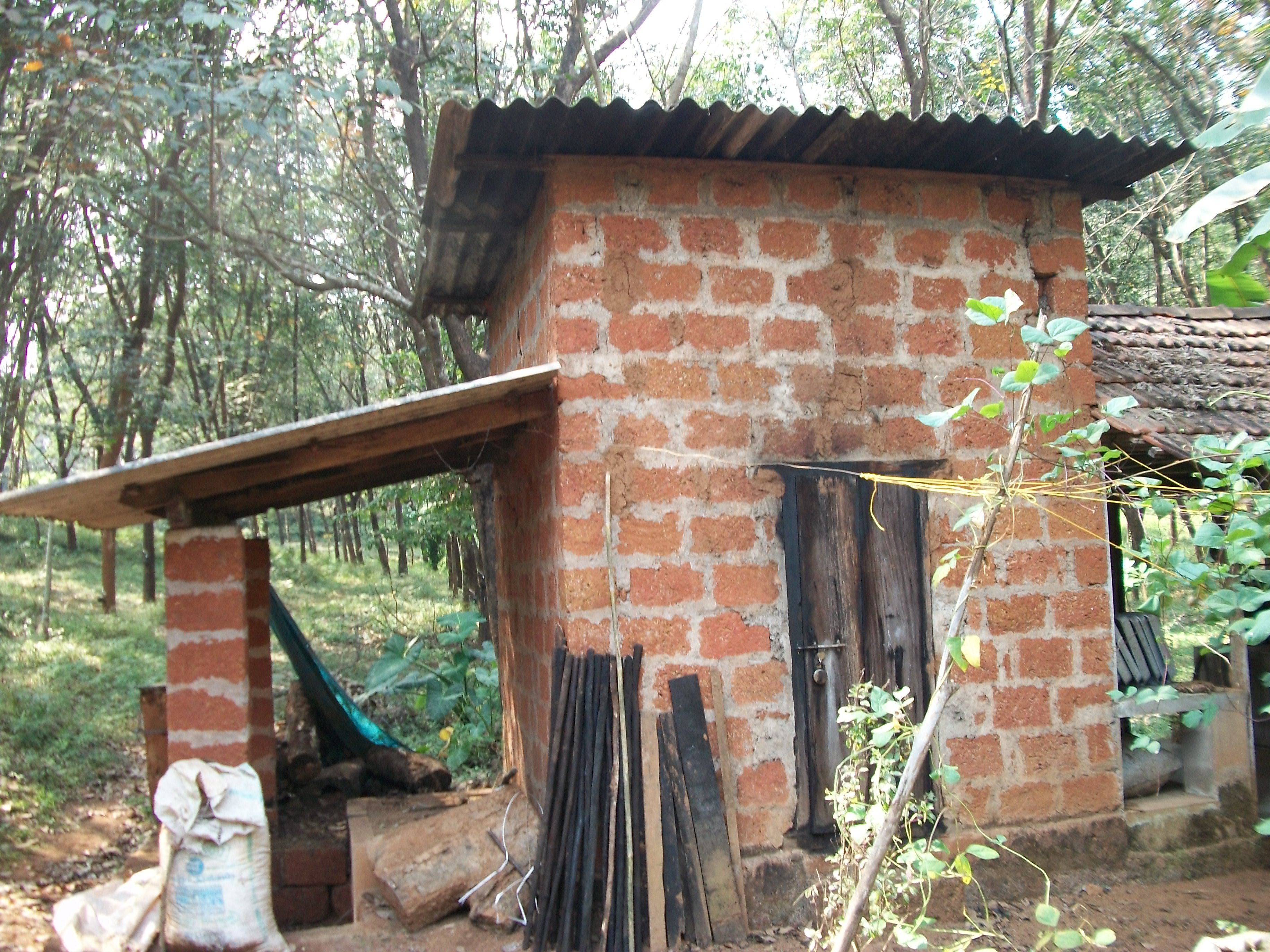 Smoke house used by Kerala Latex farmers for drying rubber sheets